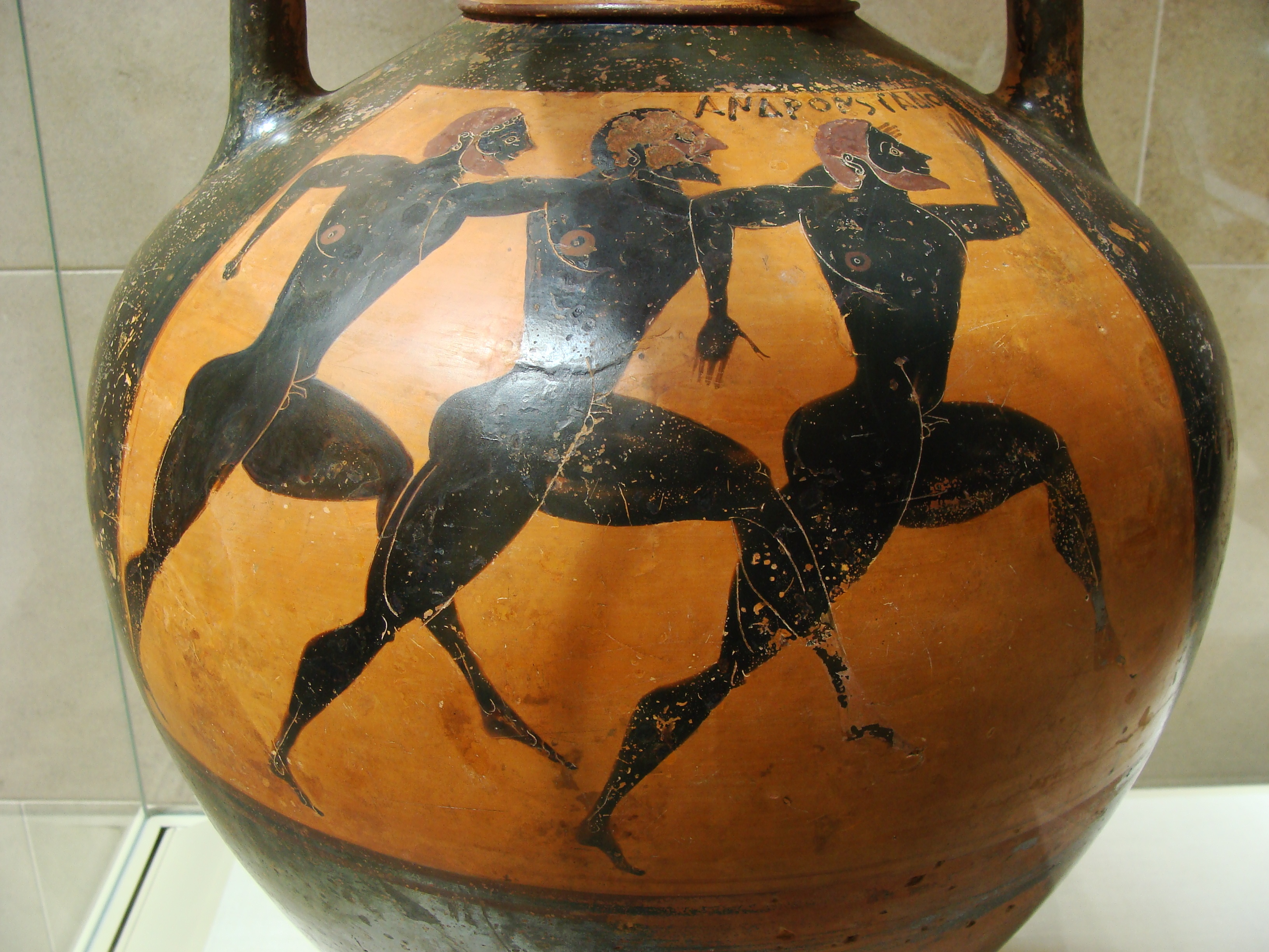 Panathenaic Prize MET 1978.11.13